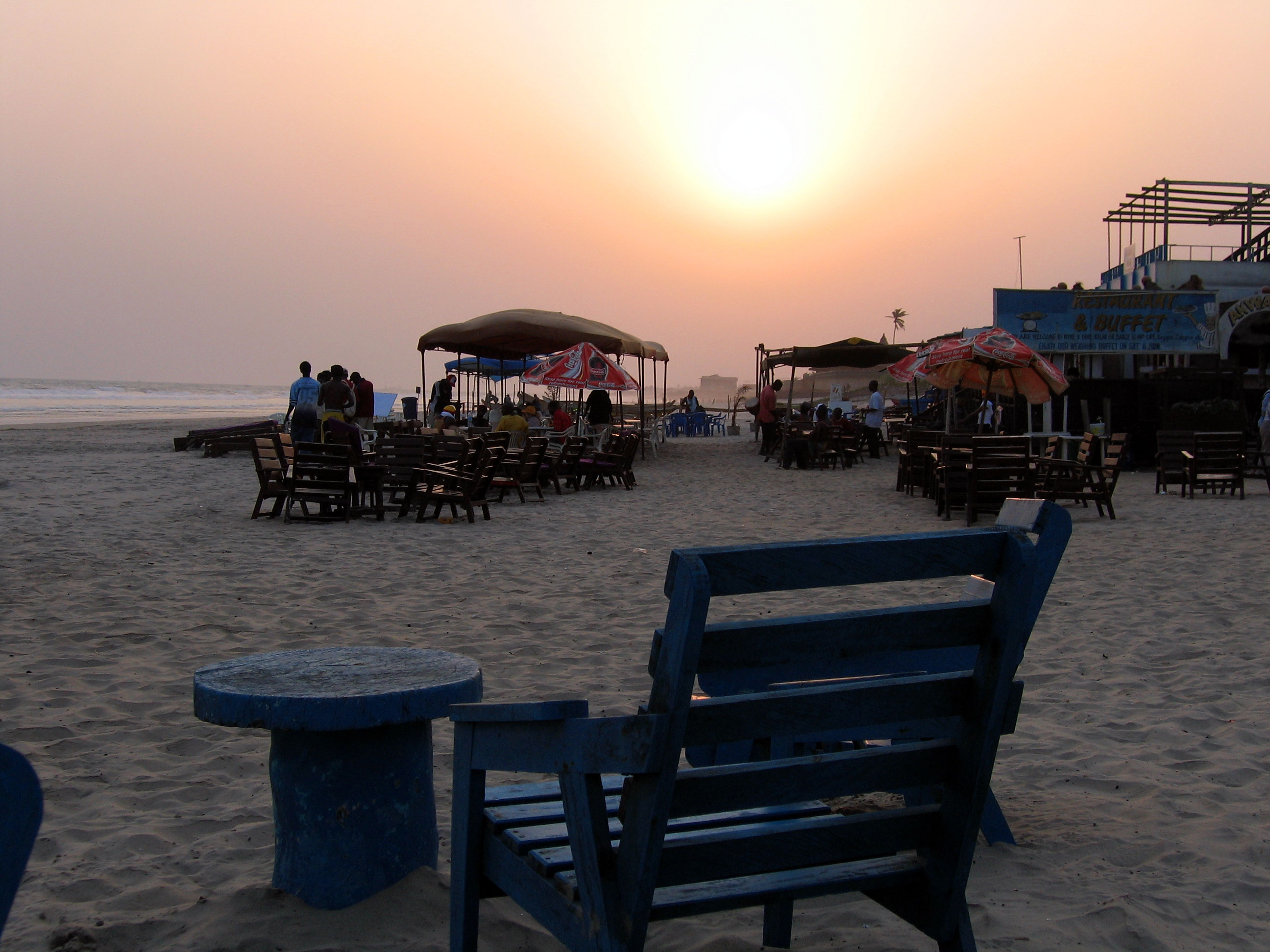 Beach at sunset in Accra Ghana